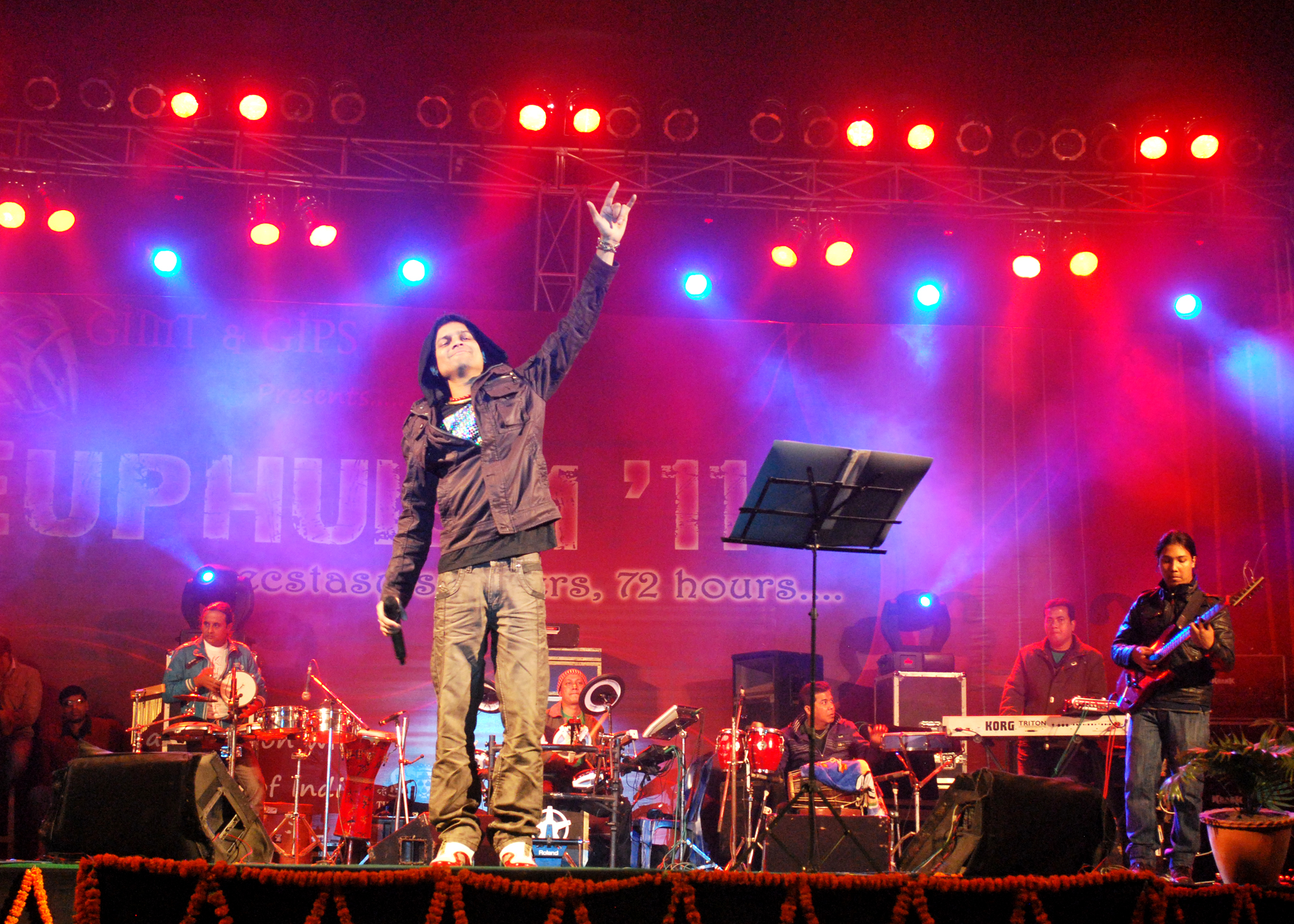 2011 Euphuism